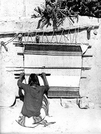 Hopi man weaving a blanket; with back to camera and holding a wooden sley in both hands.